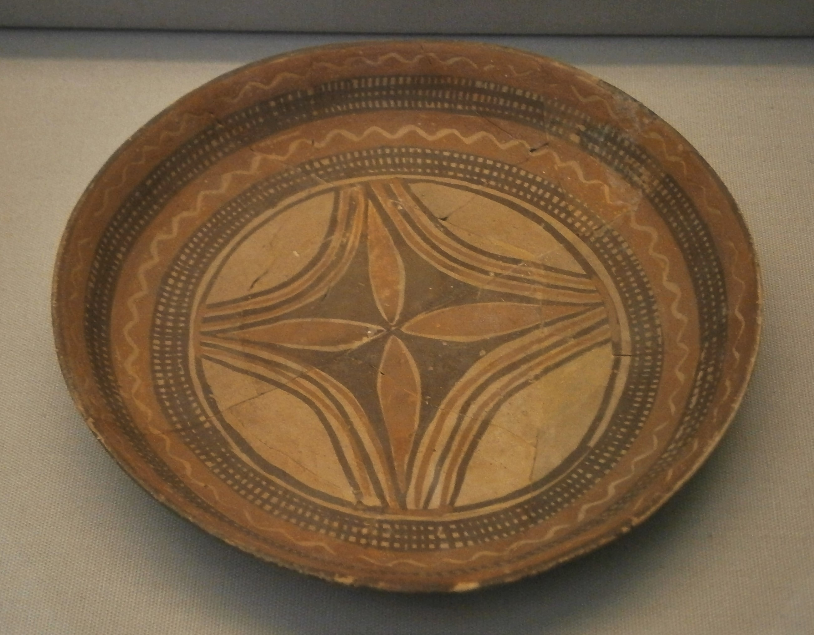 Painted shallow bowl, Halaf period, 6000-5200 BC, from Tell Arpachiyah. ME 127585.